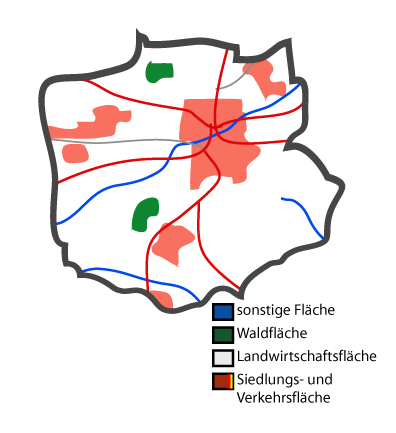 Land usage of Enger, Kreis Herford